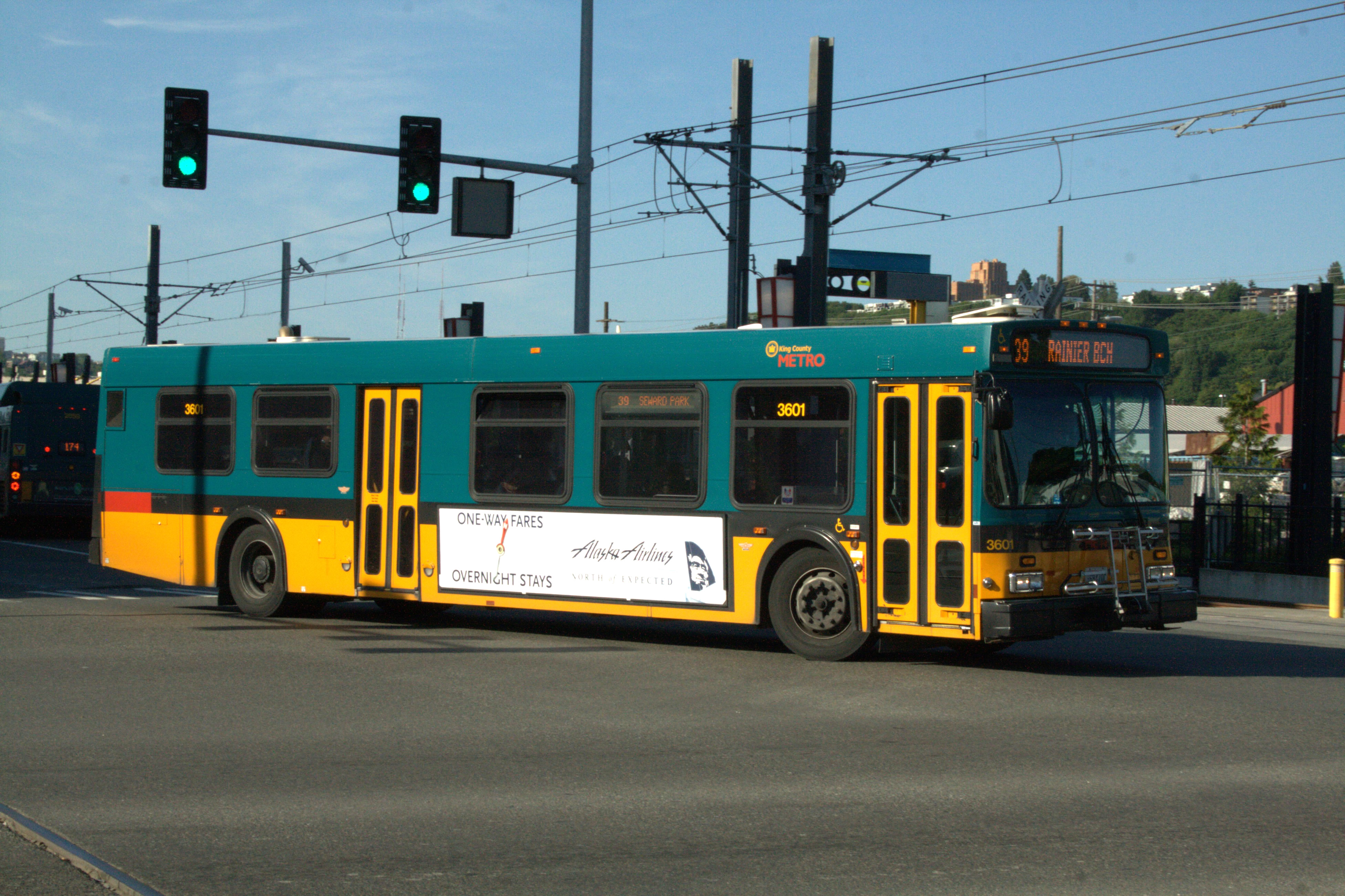 King County Metro New Flyer D40LF #3601